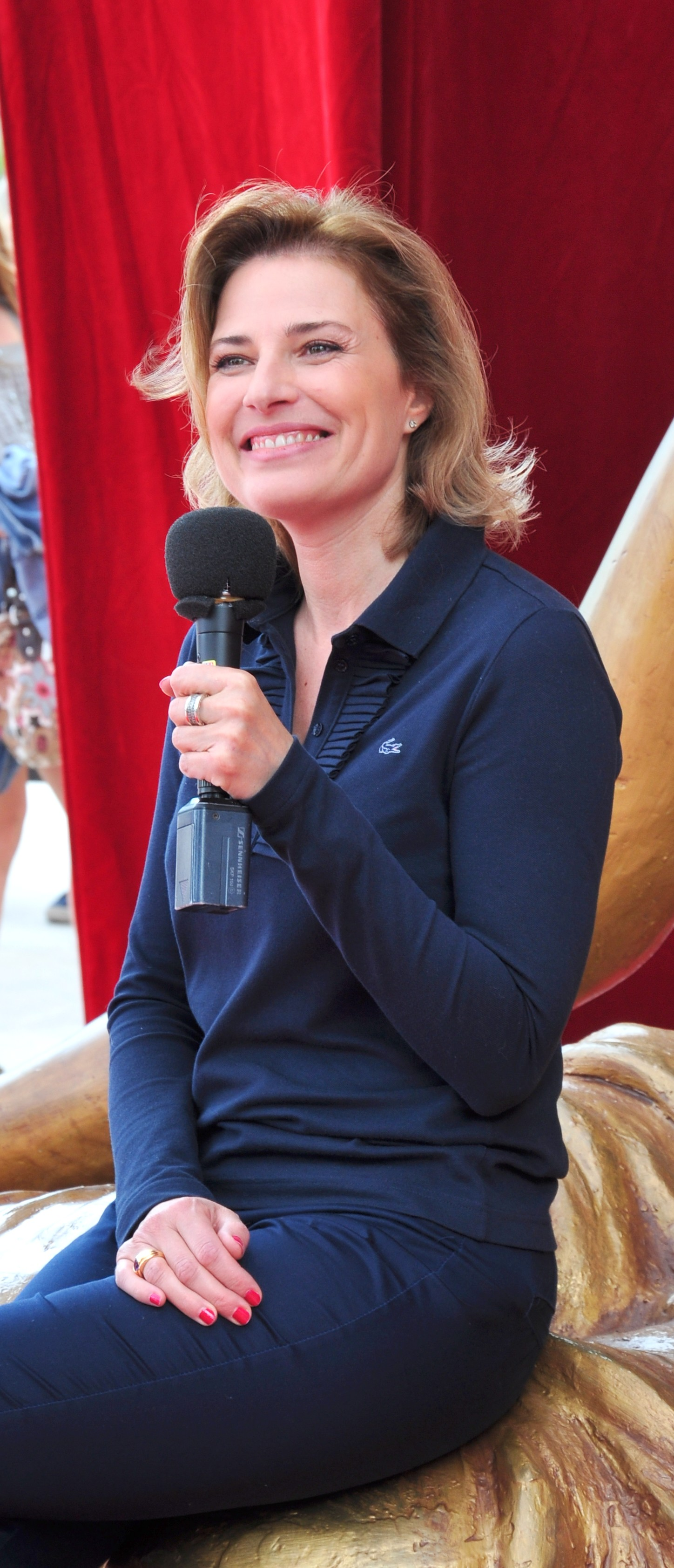 Christine Lemler at the 2013 Monte-Carlo Television Festival.